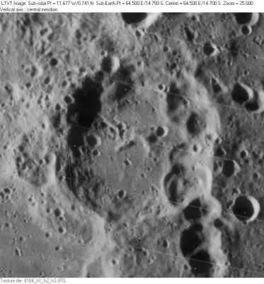 Lamé overlays the northeast rim of Vendelinus, whose floor is partially visible in the lower left.